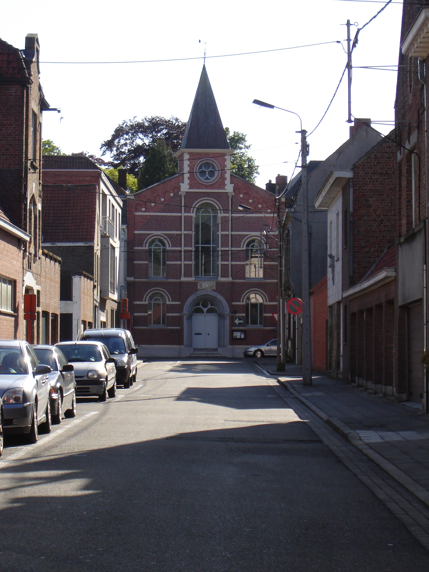 Protestant church in Roeselare, West Flanders, Belgium